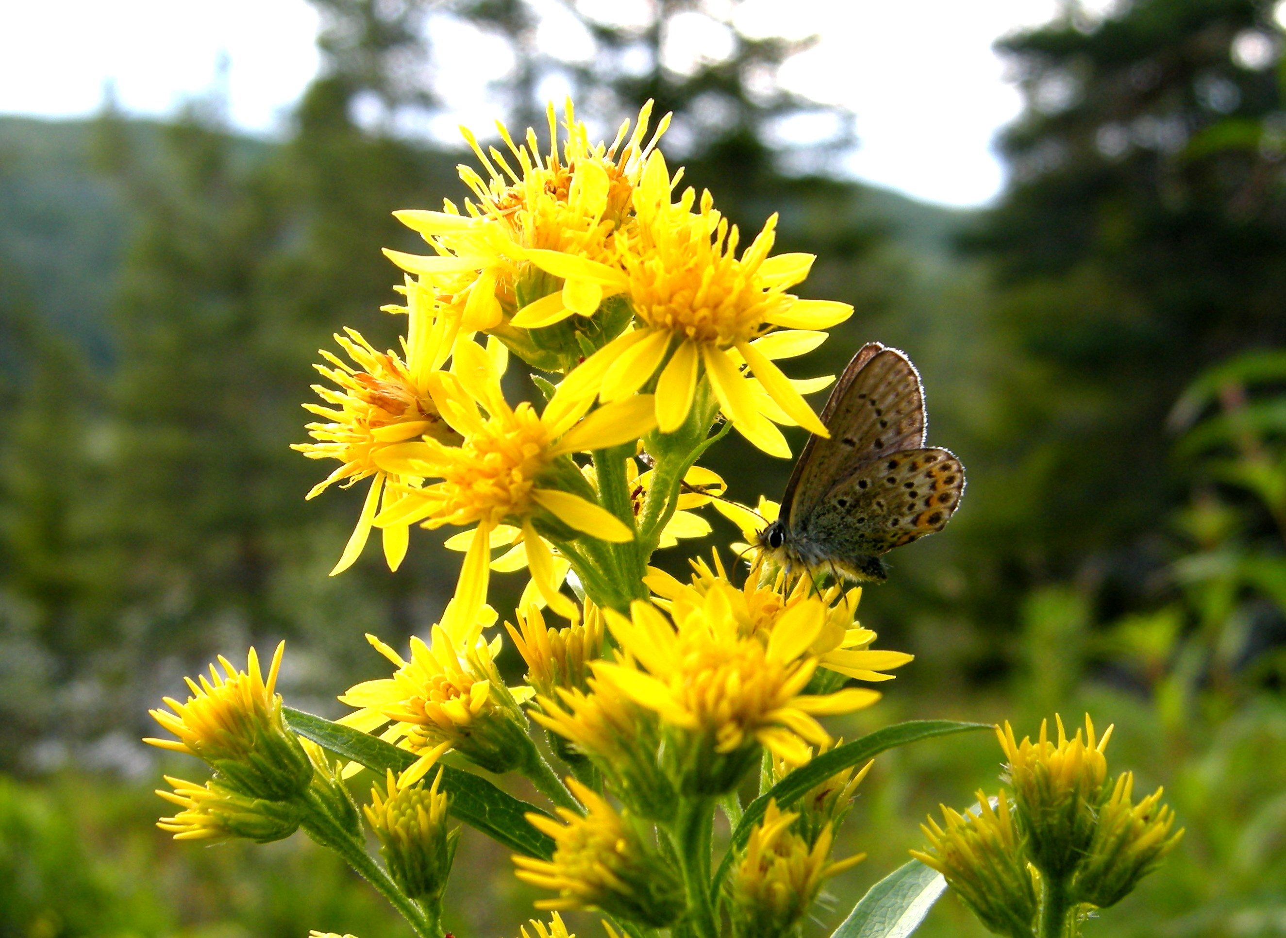 Goldenrod or woundwort - Solidago virgaurea